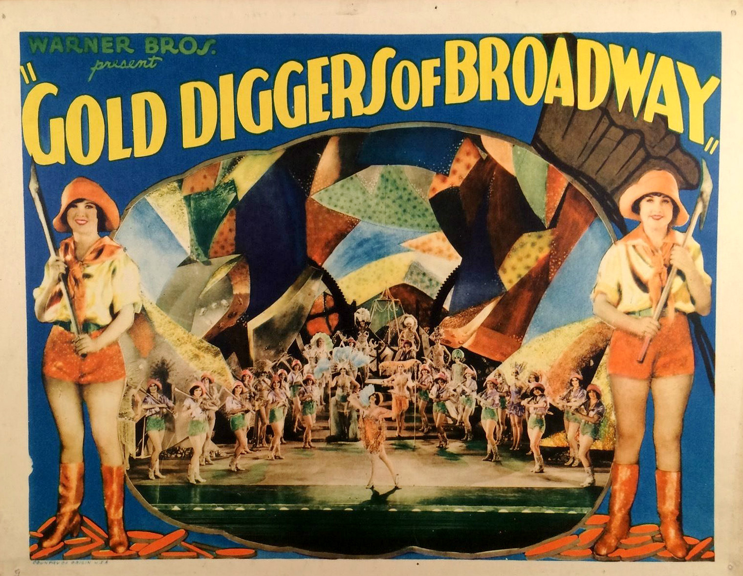 Lobby card for the American musical film Gold Diggers of Broadway (1929).